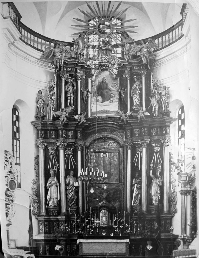 Altar of St. Trinity in cathedral in Drohiczyn, destroyed in 1939-1941 by the Russians.